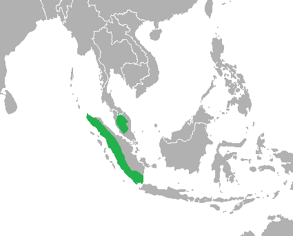 Distribution map of Siamang (Symphalangus)